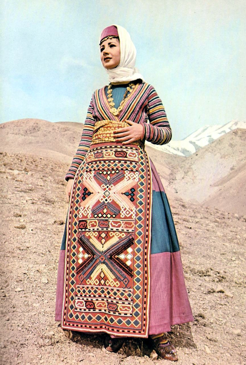 Armenian taraz (national costume) of Gavash. An indispensable part of the costume of Western Armenians was the apron – gognots, embroidered with braids and with a knitted, narrow or woven belt. They usually embroidered the words on the belt: "for good health" and "to smb’s joy". The aprons, included in the bride’s wedding dress, were especially beautiful. They were made of cotton or of the expensive velvet, embroidered with gold thread or woven with fine carpet techniques.